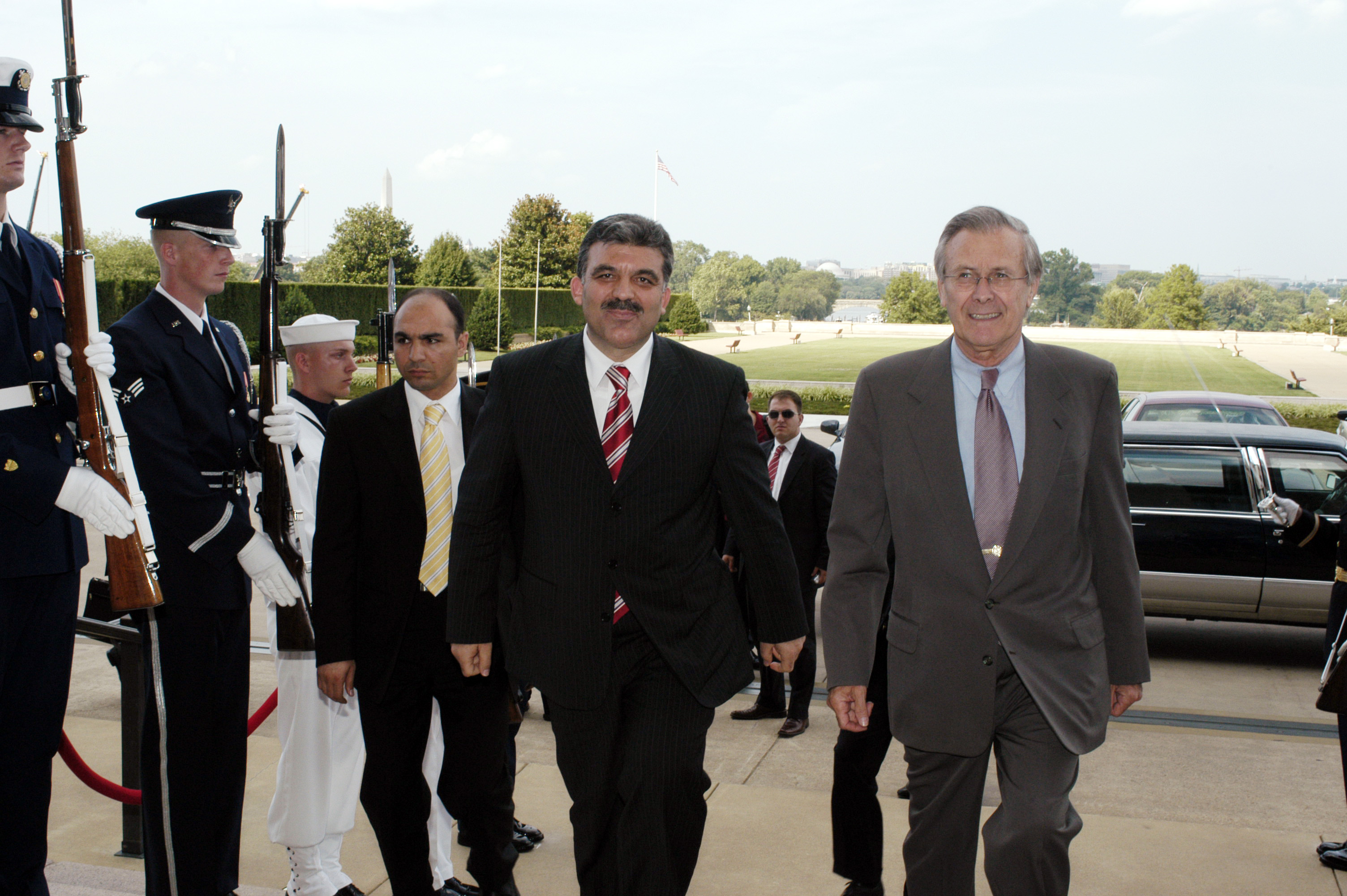 Secretary of Defense Donald H. Rumsfeld escorts Deputy Prime Minister and Minister of Foreign Affairs of the Republic of Turkey Abdullah Gul into the Pentagon on July 24, 2003. The two leaders met to discuss security issues of mutual interest.